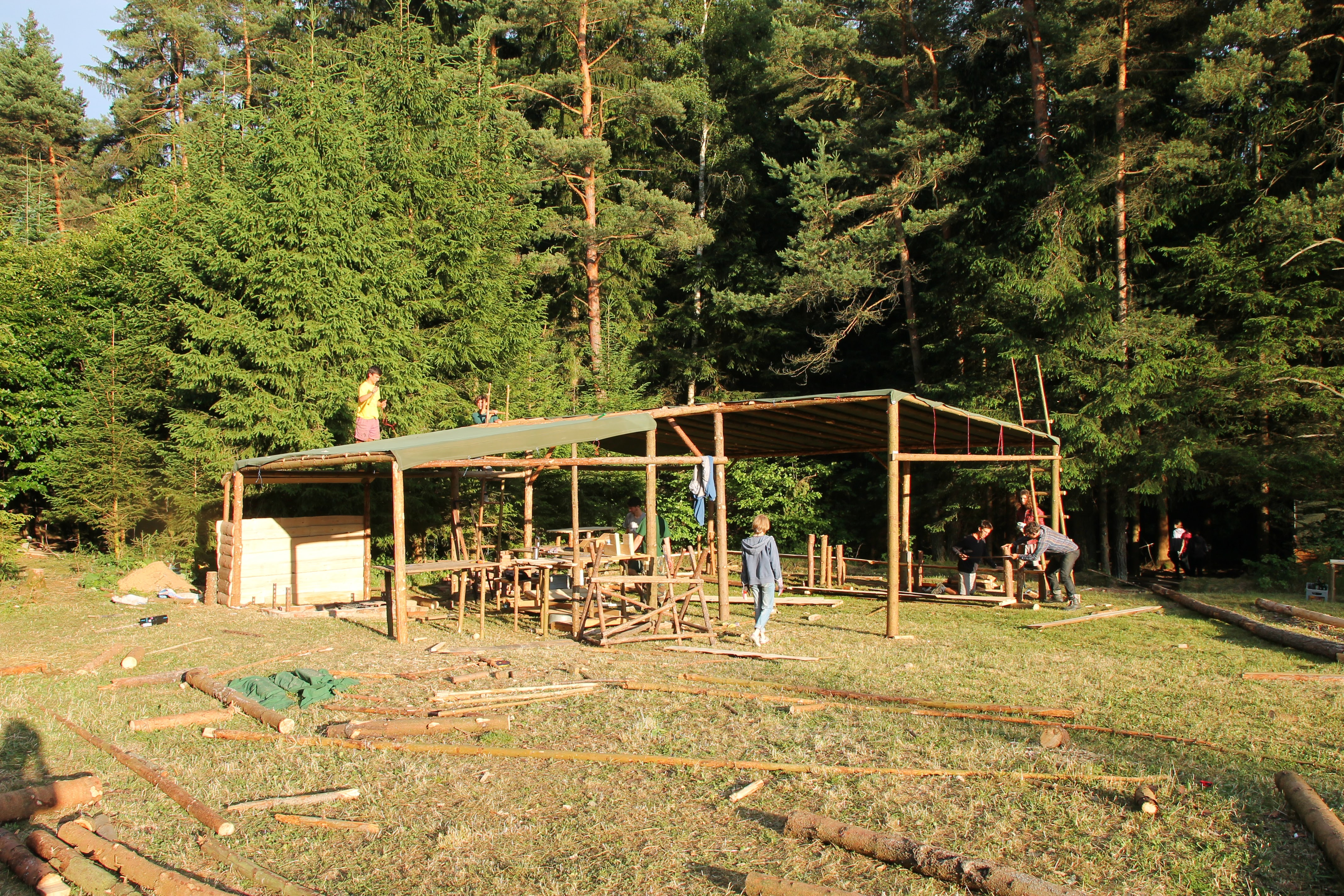 Scout campsite Svatá Maří, construction of the campsite kitchen